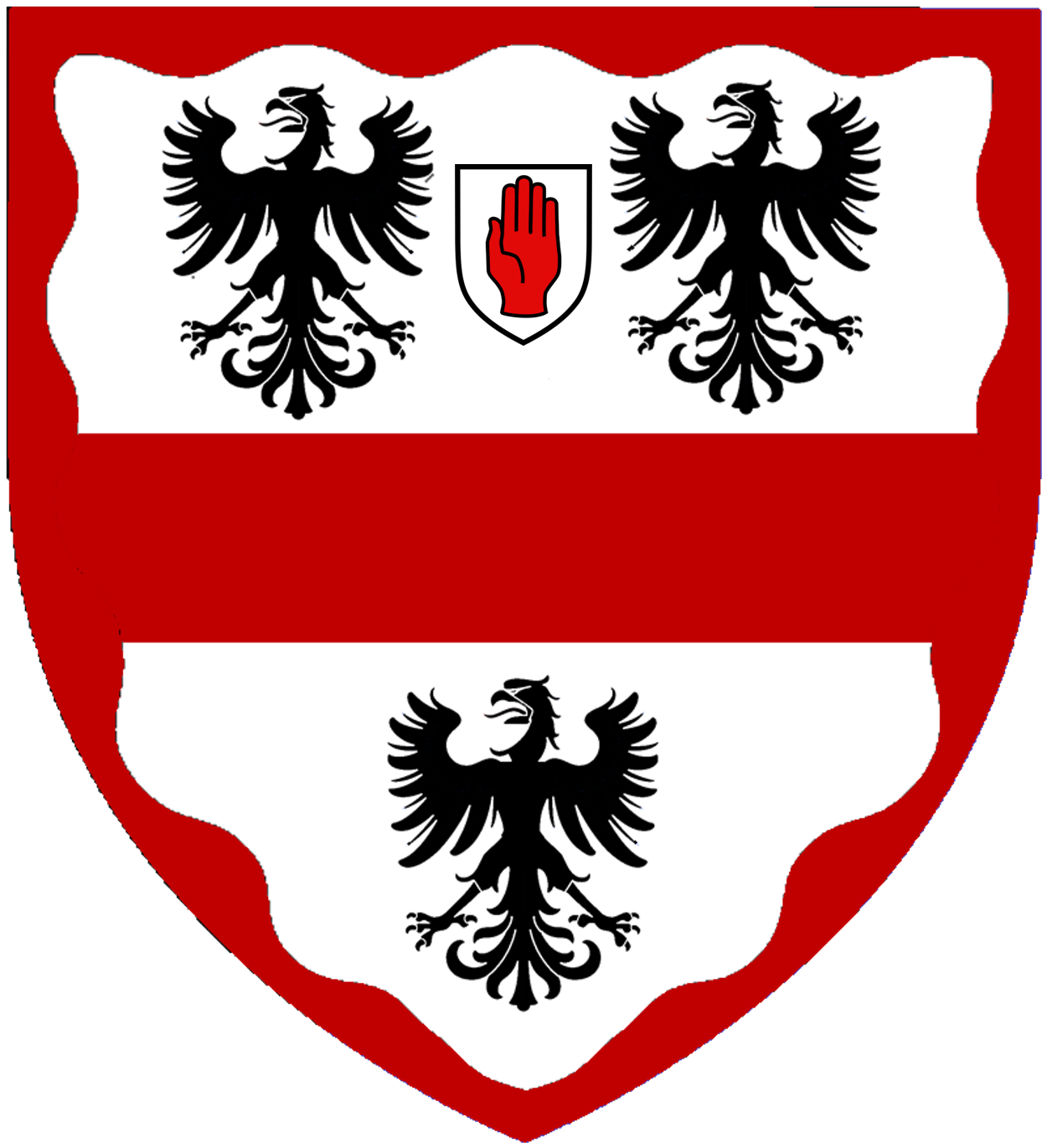 Shield of arms of the Leeds baronets of Croxton Park